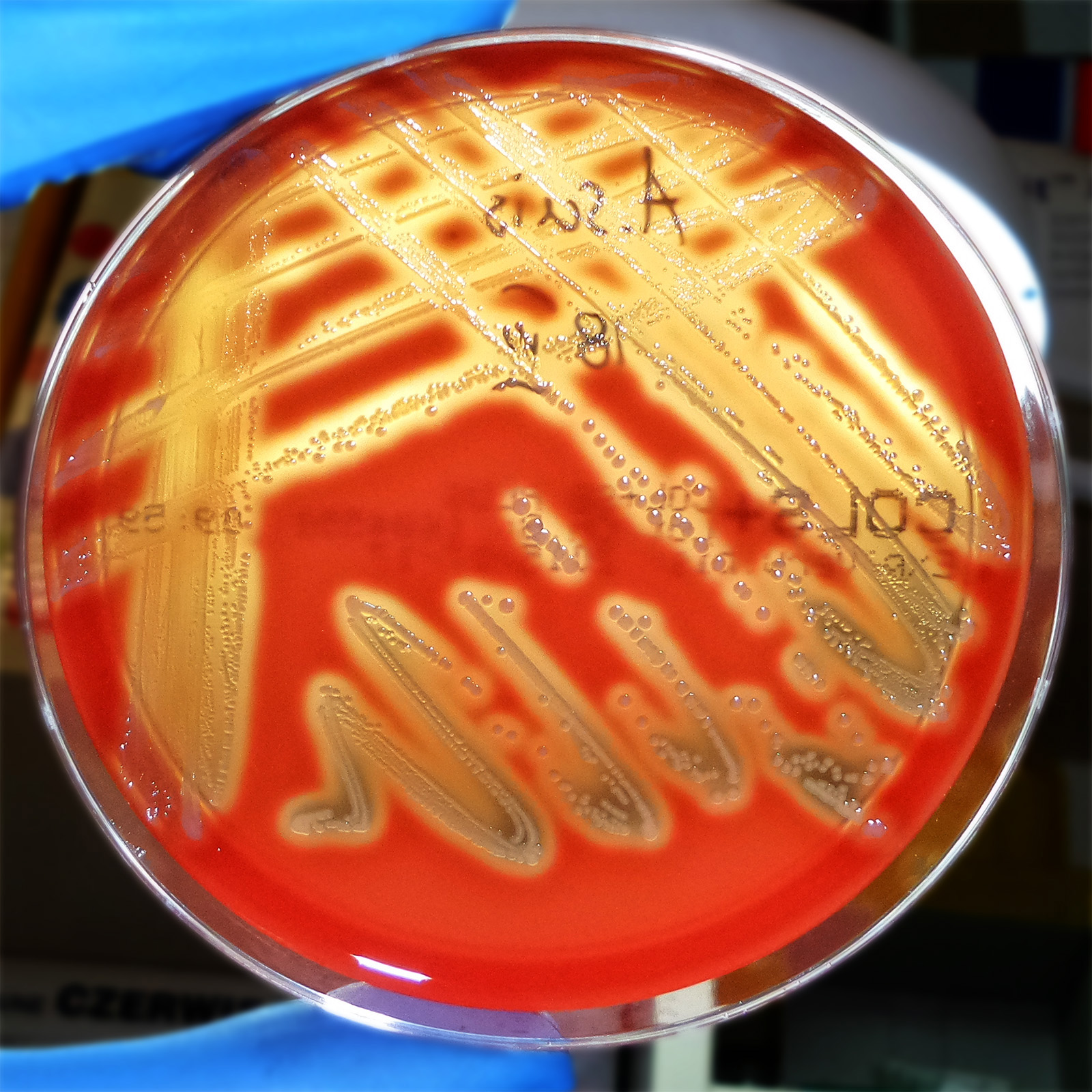 Actinobacillus suis colonies growing on the blood agar. Colonies shown with transmitted light.